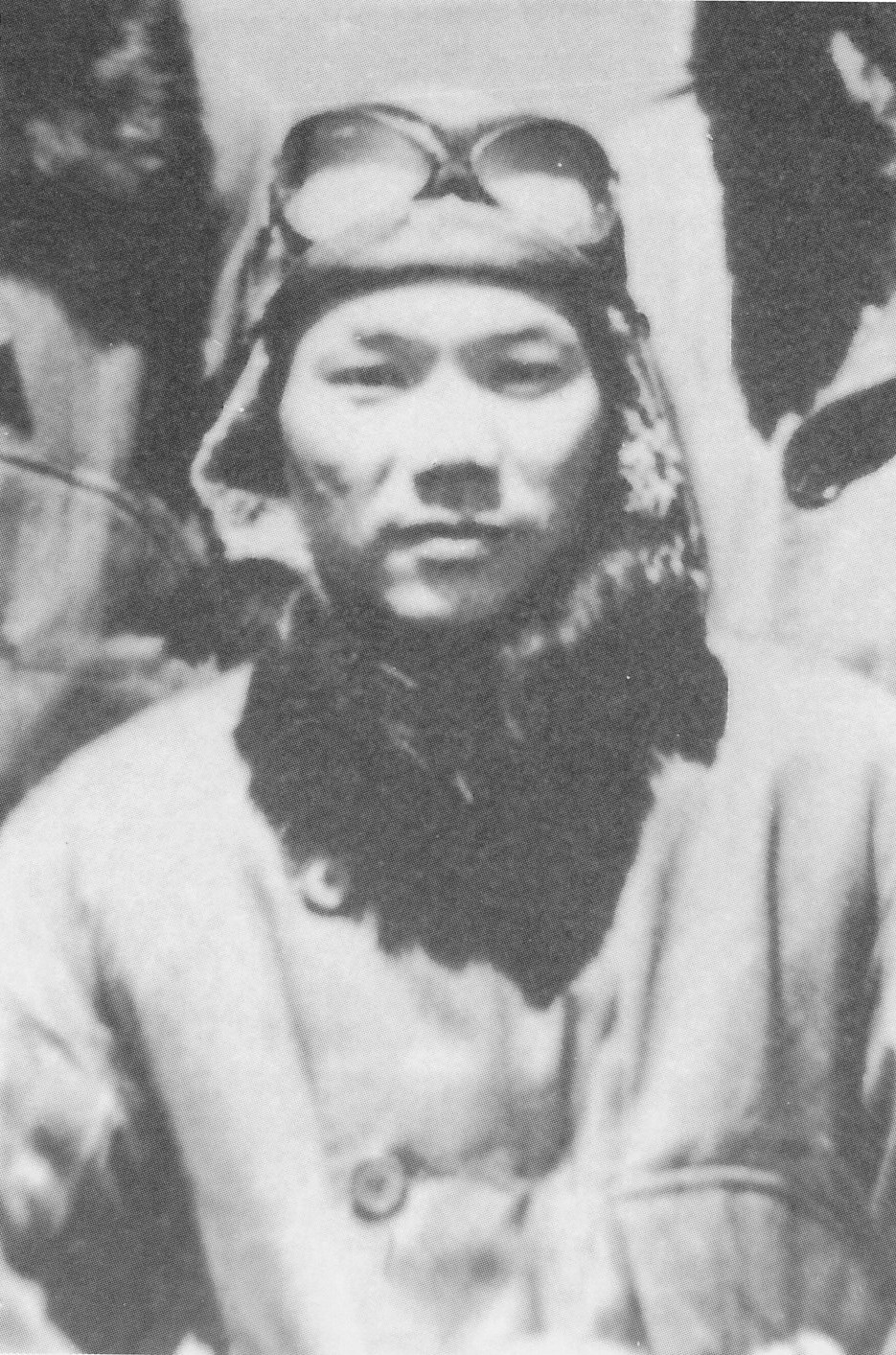 Imperial Japanese Navy fighter ace Ensign Kiichi Oda. He was officially credited with nine solo fighter combat victories in the Sino-Japanese and Pacific Wars. This picture is of Oda while assigned to the aircraft carrier Soryu.